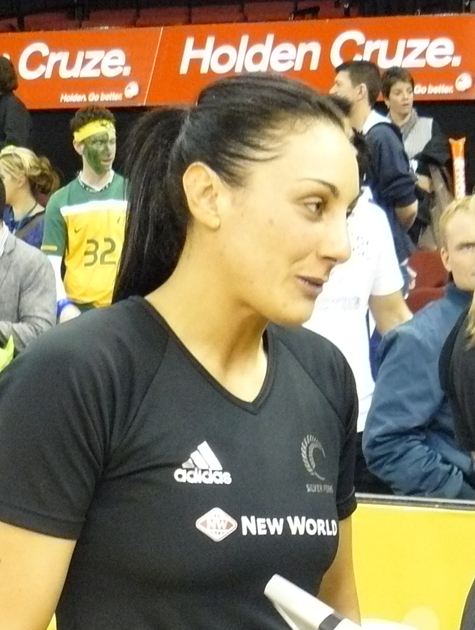 The Governor-General of New Zealand, Rt Hon Sir Anand Satyanand, talks to Silver Fern Joline Henry.